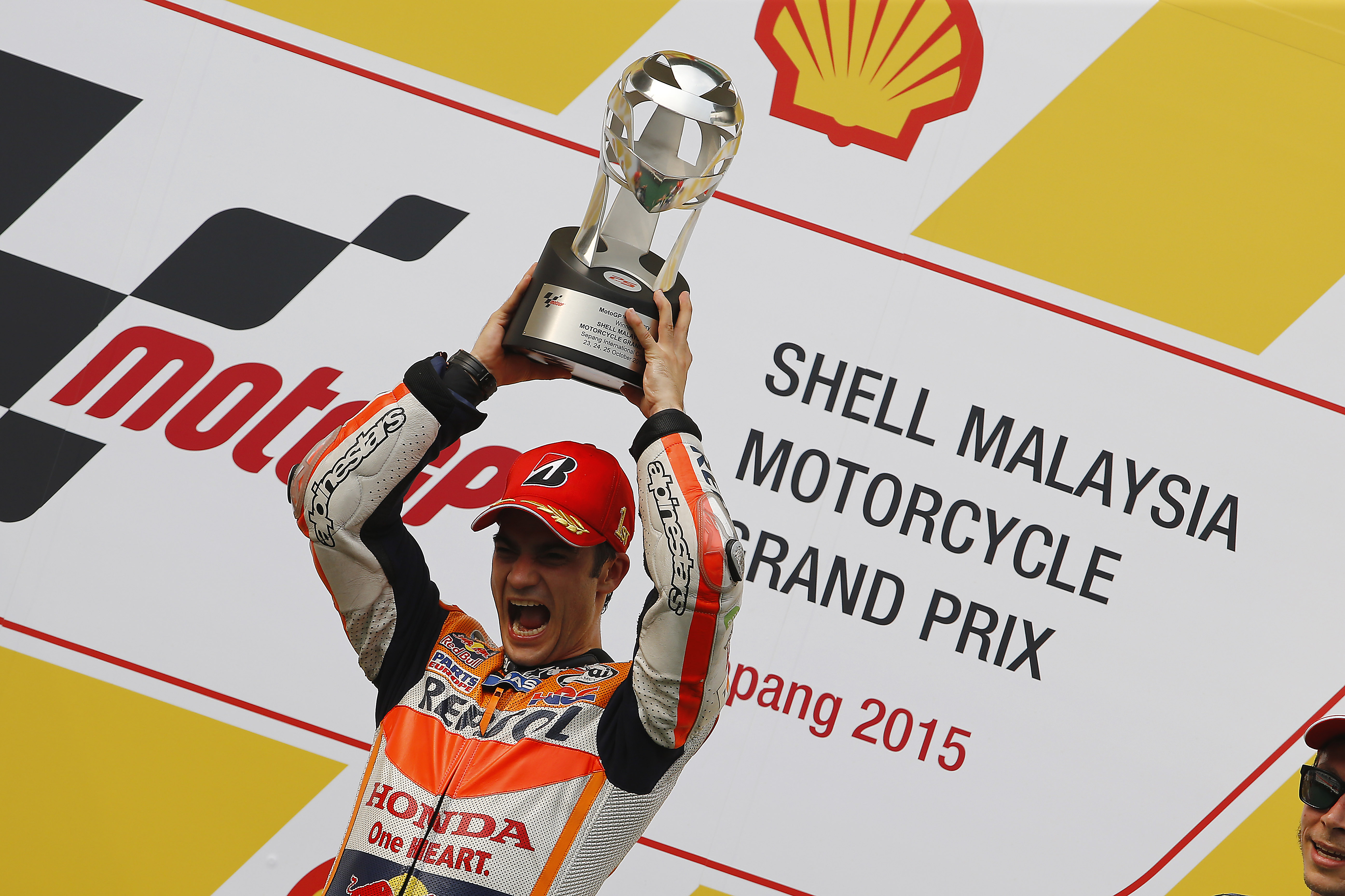 Dani Pedrosa, lifting his trophy and celebrating on the podium after winning the 2015 Malaysian Grand Prix.